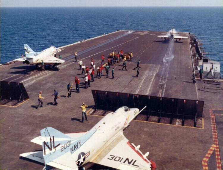 A U.S. Navy Douglas A-4E Skyhawks from attack squadron VA-153 Blue Tail Flies launching from the aircraft carrier USS Coral Sea (CVA-43) in 1967. VA-153 was assigned to Attack Carrier Air Wing 15 (CVW-15) for a deployment to Vietnam from 26 July 1967 to 8 April 1968. The aircraft in front (BuNo 152031) is armed with AGM-45 Shrike missiles.